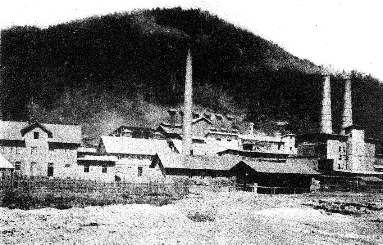 Detail of a picture postcard: Cement plant in Peissenberg, about 1900